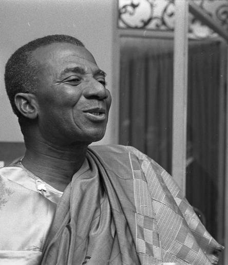 Title: München, Präsident von Togo Extra information: Der Staatspräsident von Togo, Sylvanus Olympio, zu Besuch in Bayern; Empfang im Hotel Continental München People in the image: Olympio, Sylvanus: Präsident, Togo (GND 124746020) Factual corrections and alternative descriptions are encouraged separately from the original description. Additionally errors can be reported at this page to inform the Bundesarchiv. Original historic description: Staatspräsident von Togo, Olympio, Empfang im Hotel "Continental" in München